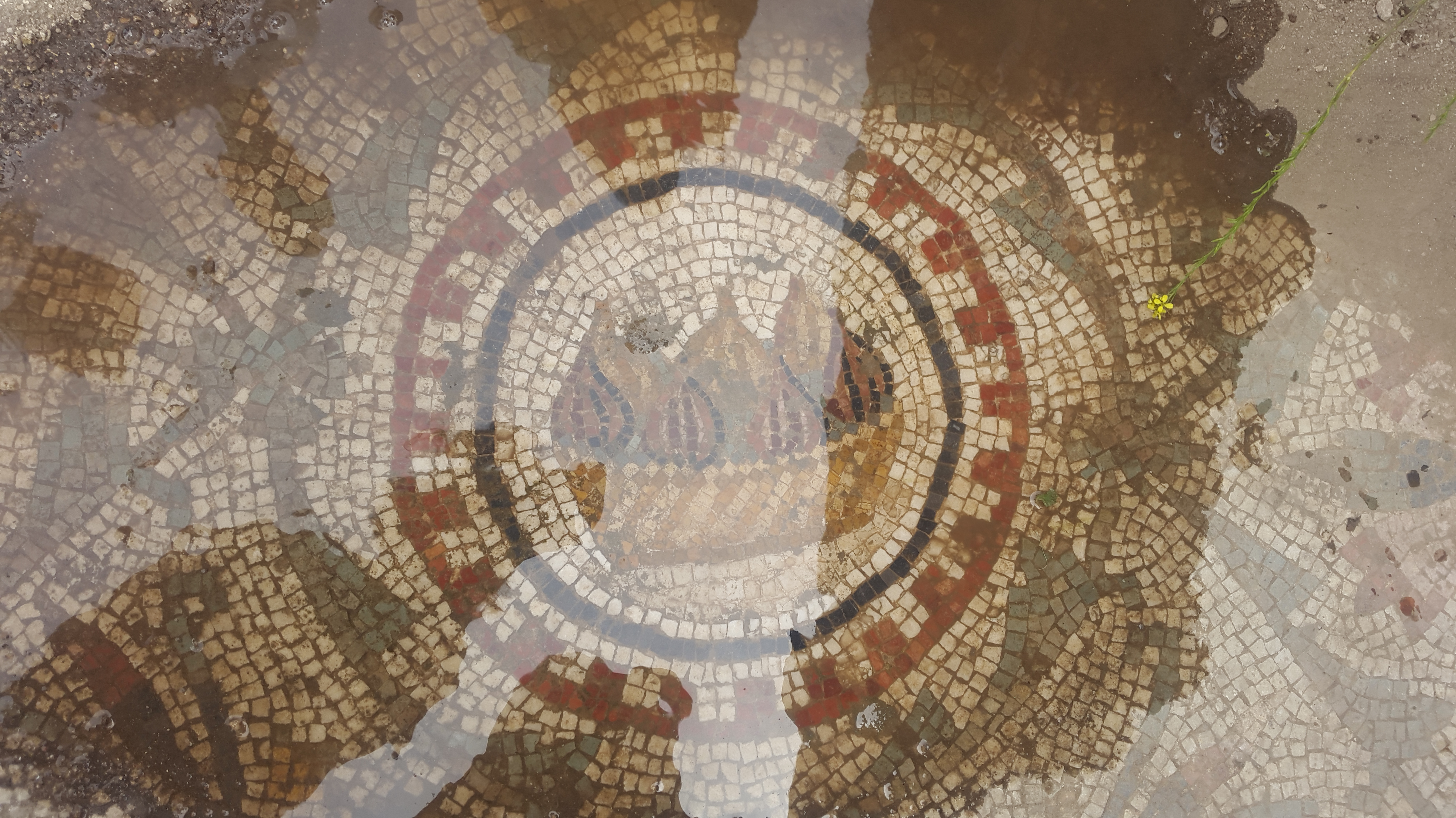 Figs mosaic at Furnos Minus in Borj El Amri, Manouba